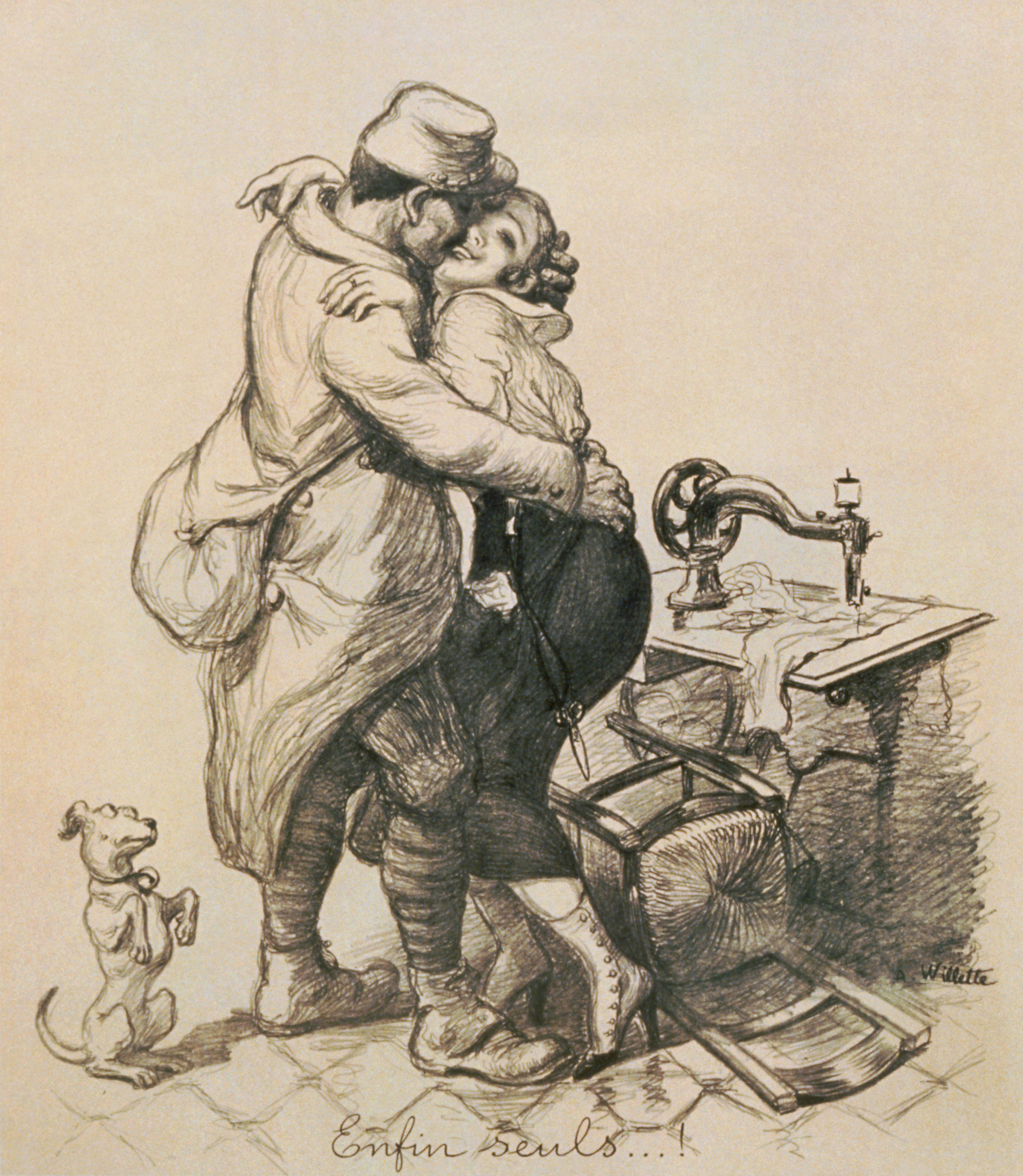 "Alone at last", translated caption for Enfin seuls. Original title Journé du Poilu. 25 et 26 décembre 1915 (trans. "Journey of a French infantryman, December 25 and 26 1915") A soldier on leave from World War I embraces a young woman, whose chair by a sewing machine tipped in haste while she answered his arrival. At his heels a small dog begs for attention. Cropped caption: 198/200 A. Willette